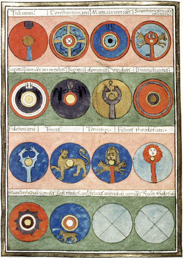 Insignia of the magister militum praesentalis. Folio 096 verso of the manuscript Notitia dignitatum. Bodleian Library shelfmark MS. Canon. Misc. 378.